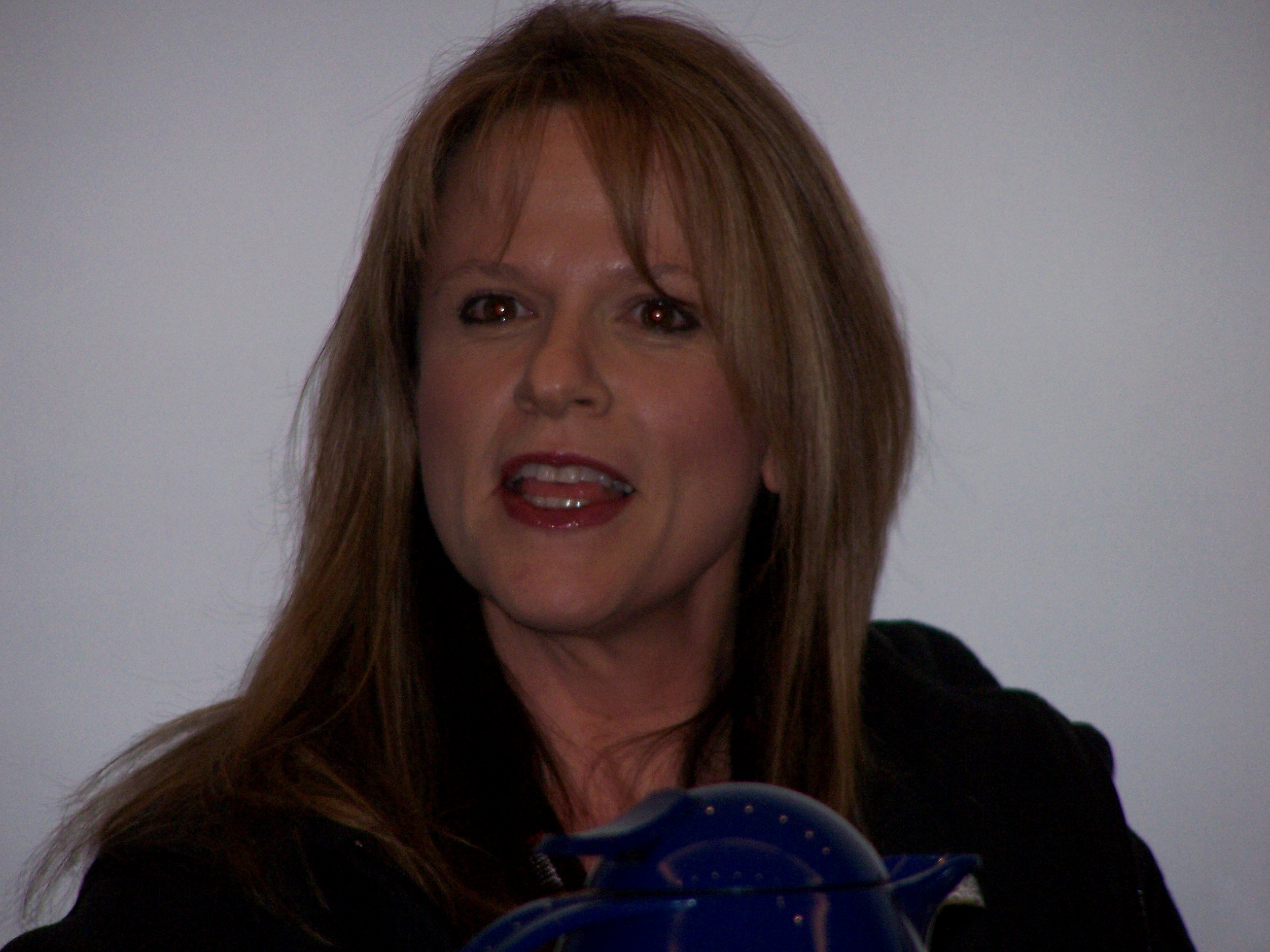 Miriam Stockley at the Nokia Night of the Proms in December 2006 in Frankfurt am Main